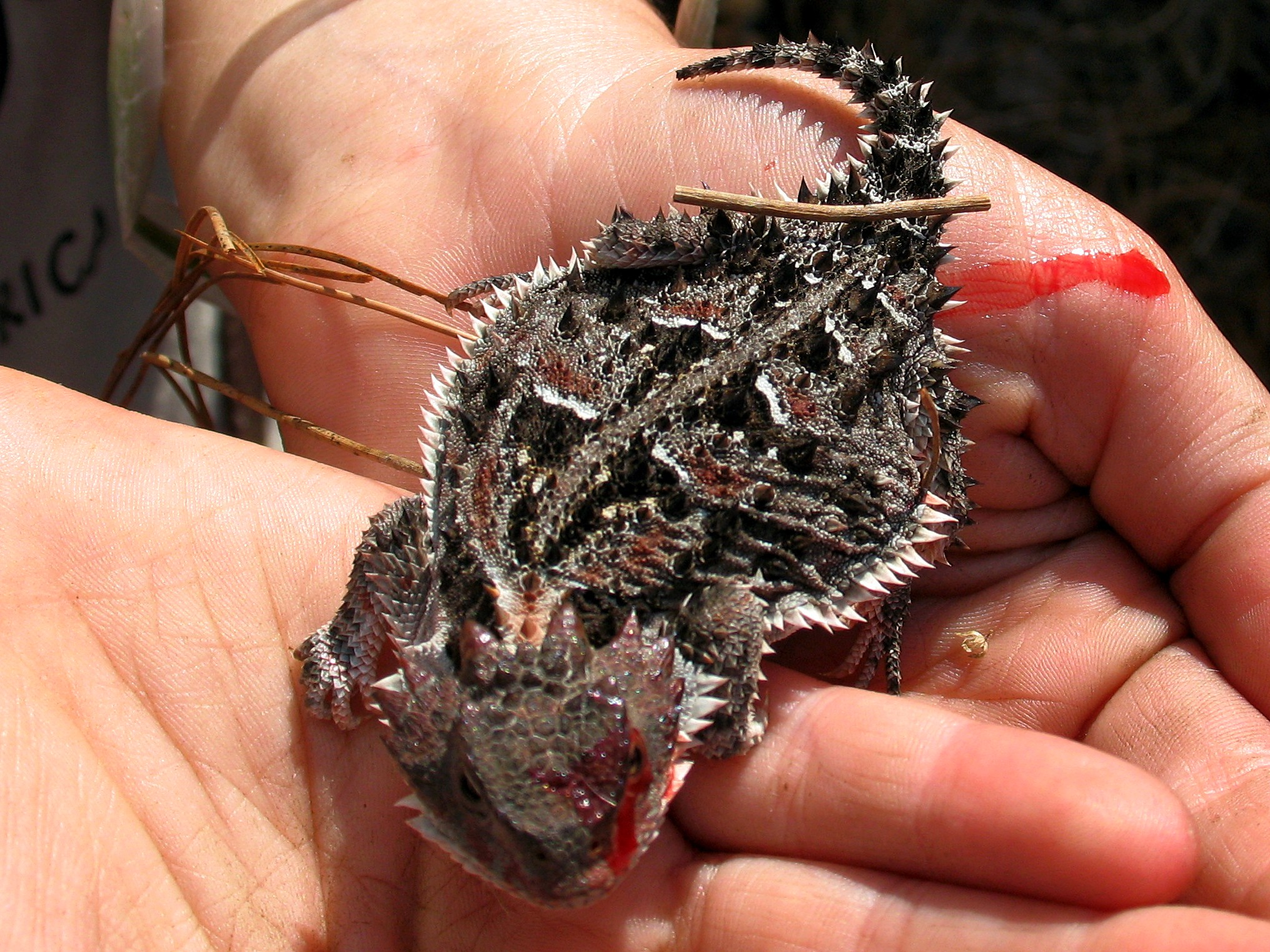 Mexican Plateau horned lizard — Phrynosoma orbiculare. Near Xalapa de Enríquez, Veracruz, Mexico.